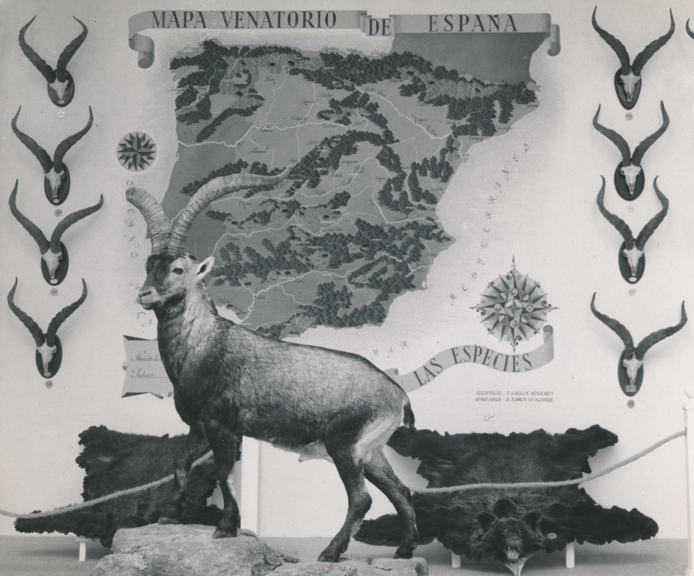 Expo of the first national competition of trophies of Spain in Madrid, 1950. A full body Spanish ibex can be seen up front, as well as other Spanish ibex and two Cantabrian brown bears.